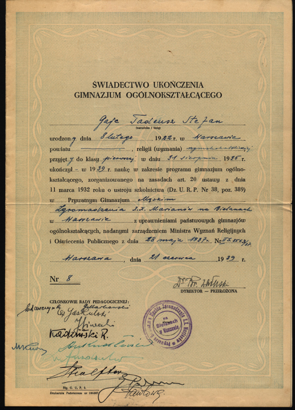 Gimnazjum certificate of Tadeusz Gajcy.